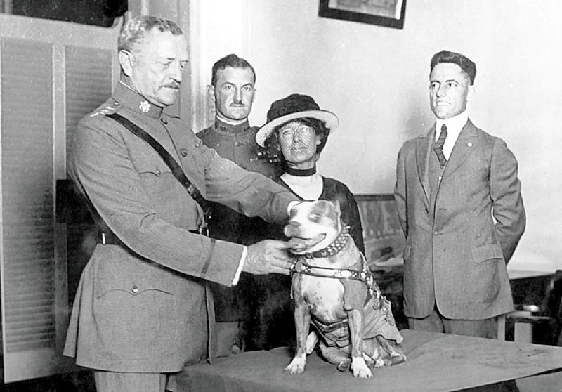 General John J. Pershing awards Sergeant Stubby with a medal in 1921 as Robert Conroy, wearing suit, stands behind them.